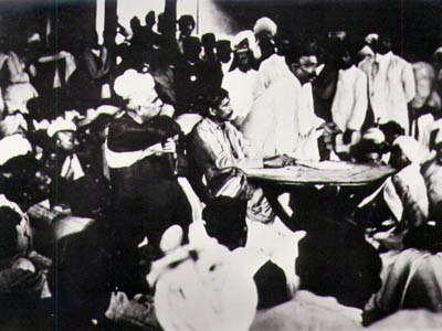 Indian nationalist leader Bal Gangadhar Tilak speaking at the Surat Congress. Seated with his hands on the table is Sri Aurobindo and to his right (seated in a chair) is G. S. Khaparde.